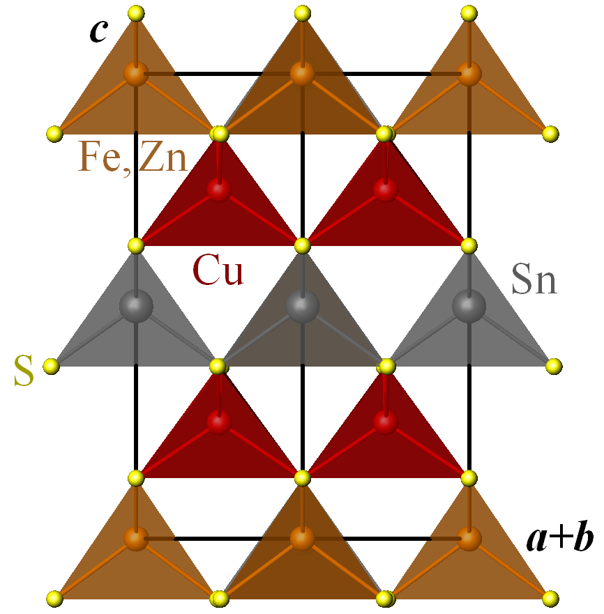 Crystal structure of stannite, Cu2(Fe,Zn)SnS4, I-42m, projected onto the (a+b, c) plane.